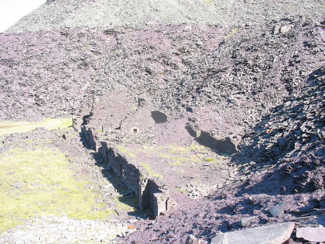 Ruined Dressing Shed at Chwarel Moel Tryfan Quarry. This mill was sited between the pit and a well engineered incline which took finished products down to the main incline of the Bryngwyn Tramway.